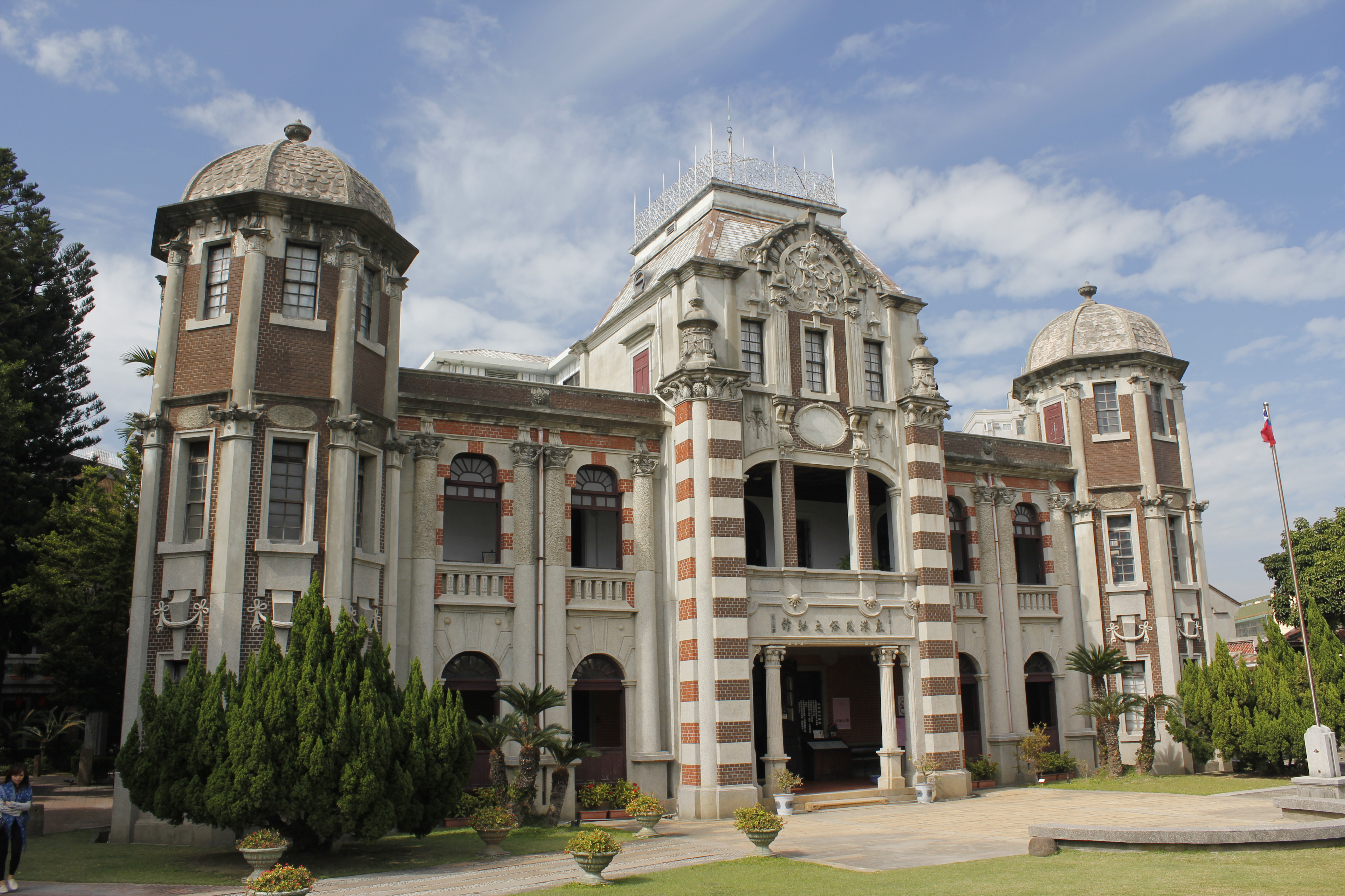 Koo's Family old house in Lugang, Taiwan